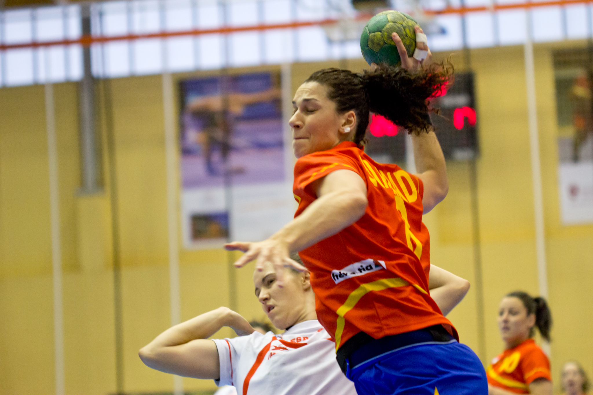 Last game for Verónica Cuadrado with the Spain national handball team, at the Spain Handball All Star Game 2013, in San Sebastián de los Reyes, Madrid, Spain.